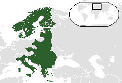 Map showing the territories that would comprise the Międzymorze federation in proposal from 1921 to 1935